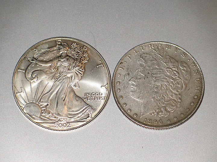 Picture of a genuine American Silver Eagle and a counterfeit Morgan Dollar manufactured from Nickel Silver. The counterfeit coin was sourced in Thailand, 2007.